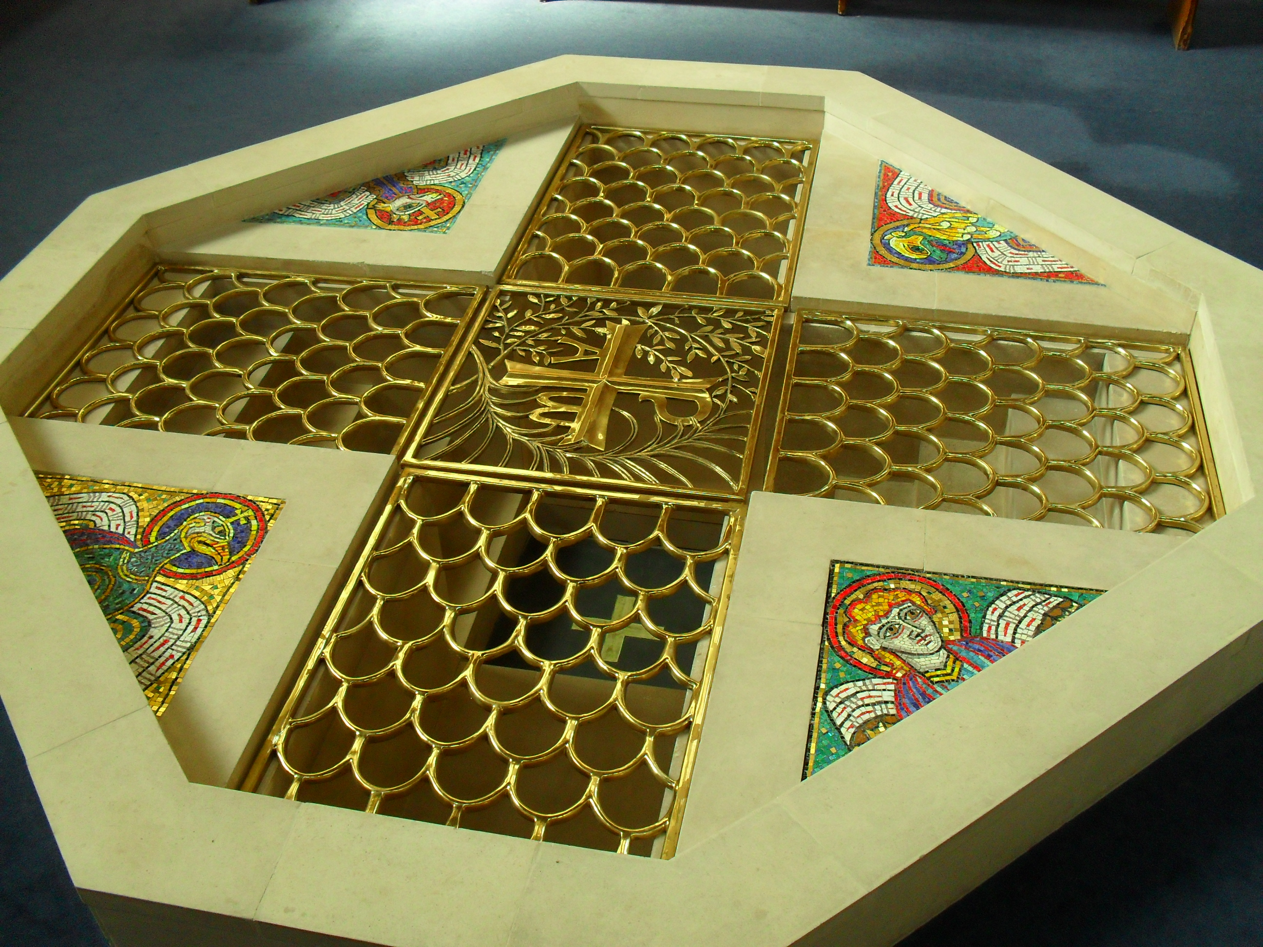 Modern baptismal font in the Guardian Angels Catholic Church, London, designed in accordance with early Christian tradition. It is used to perform the sacrament of baptism of both, adults and babies, by immersion. The Baptism in the parish normally takes place during celebrations of the paschal Easter night.